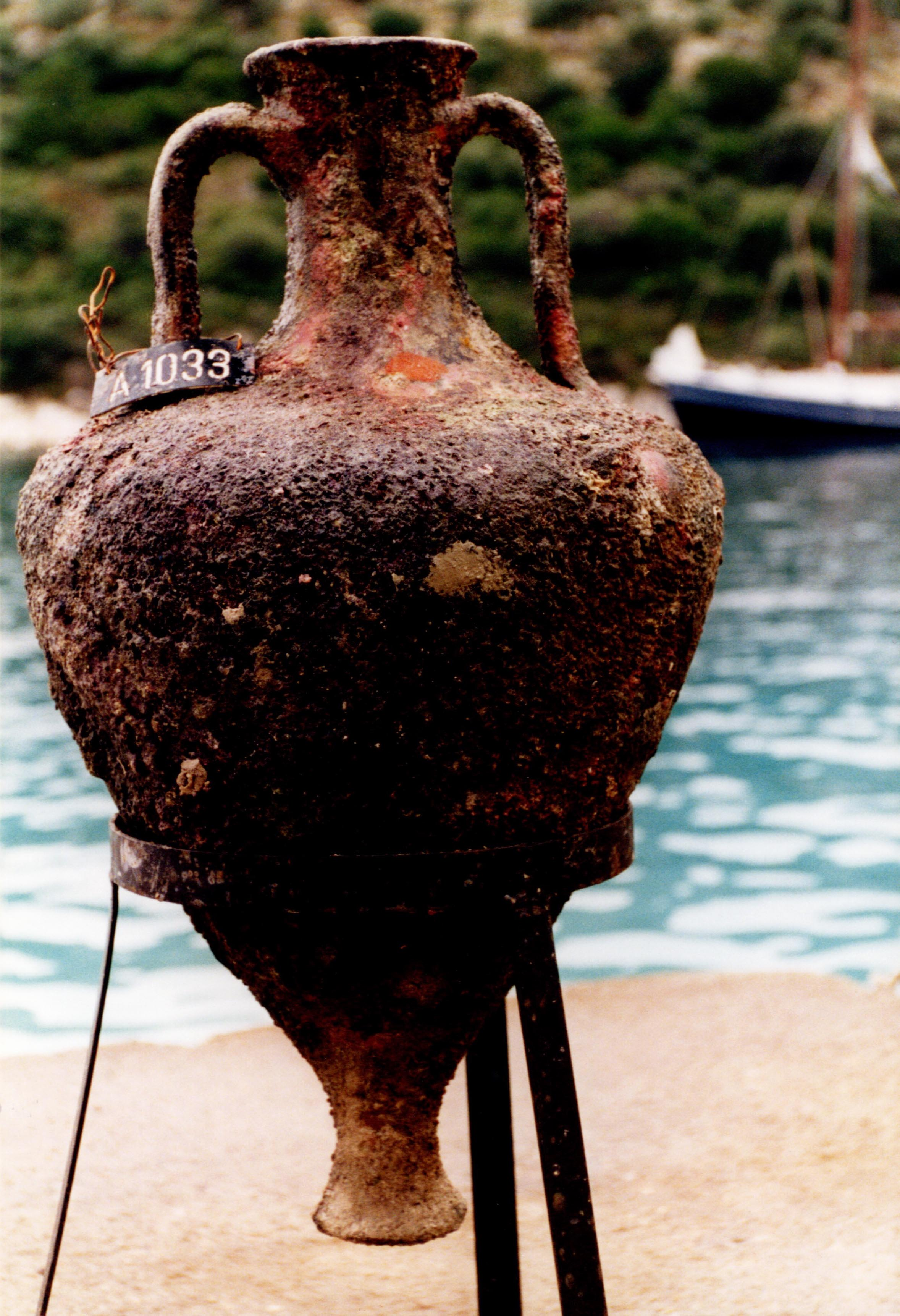 Amphora A1033 was recovered from the Alonnisos shipwreck. This amphora is around 62 cm tall and 38 cm maximum width. It probably carried wine from the ancient port town of Mende in Chalkidiki. It dates to 420-400 BC.